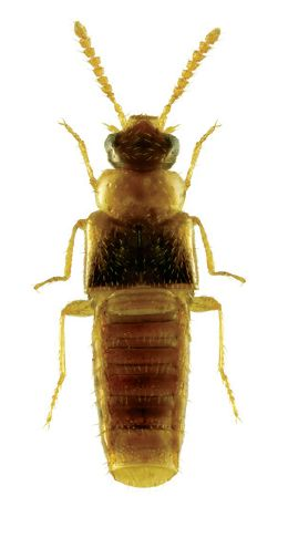 Dorsal view of Gyrophaena (G.) dybasi (apical part of abdomen removed).